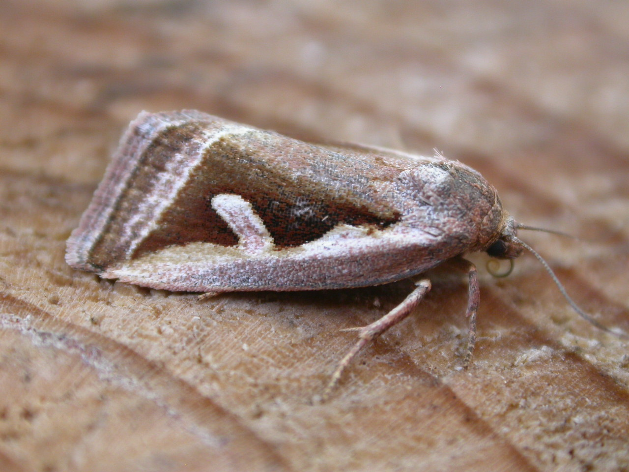 Lithacodia uncula (syn. Deltote uncula), to MV light, Hellerup, Denmark, 17 July 2003